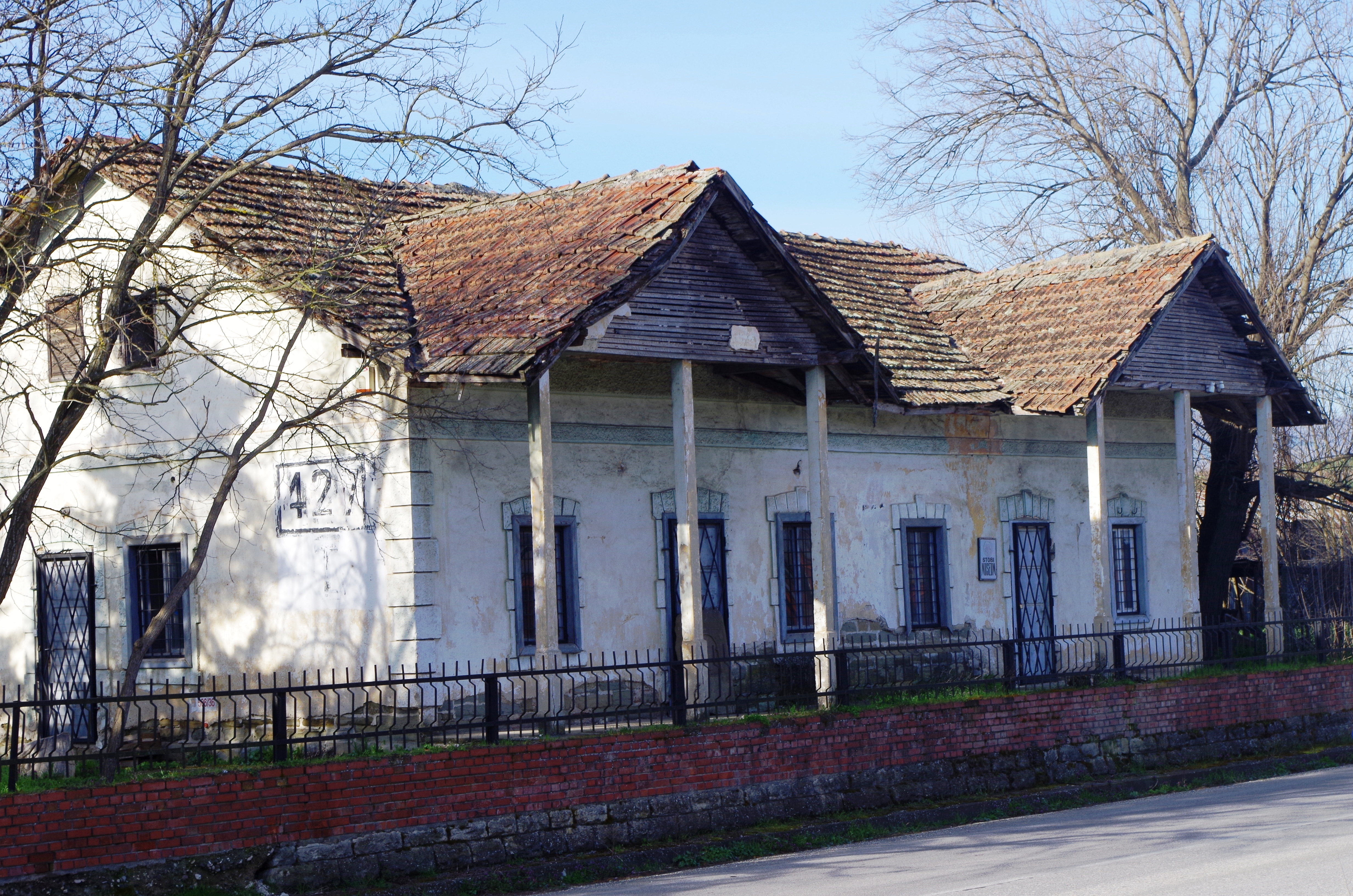 Train station Stobi